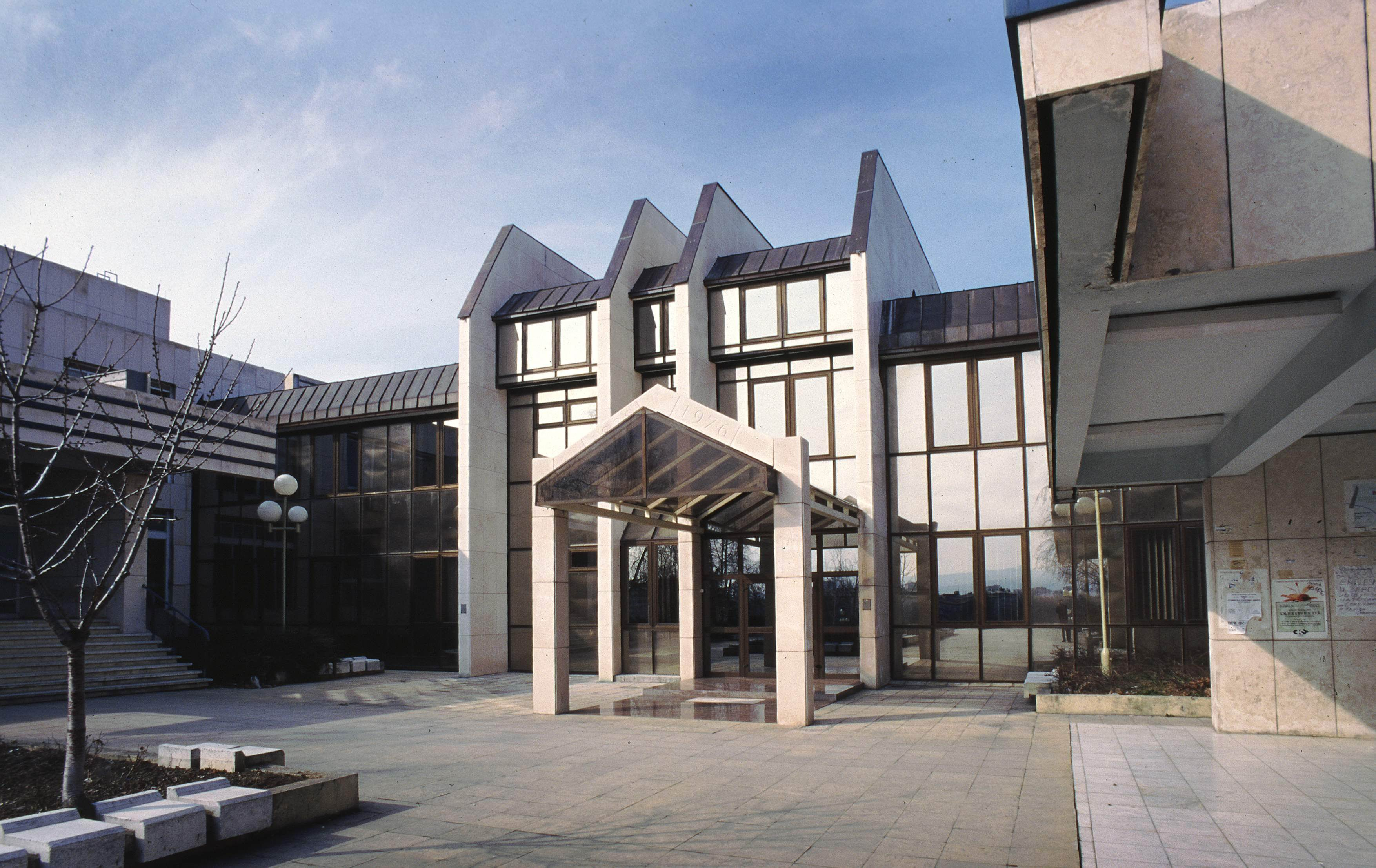 University of Kragujevac, Faculty of Economics - Svetozar Markovic